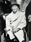 Frederick Delius in 1929. By this stage Delius was in a wheelchair due to the effects of third-stage syphilis.